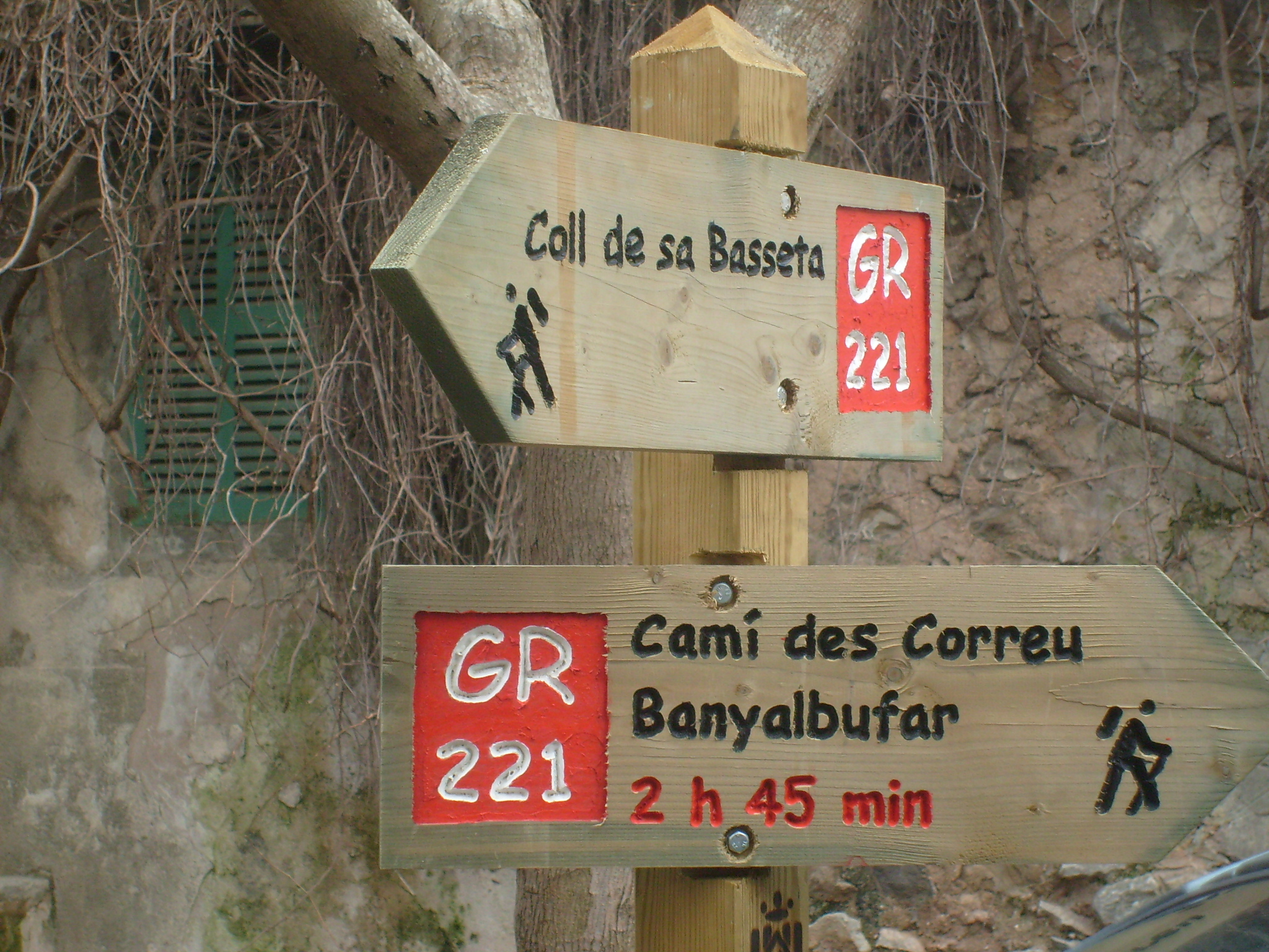 GR 221 signs at Esporles GR 221 3rd stage: Estellencs – Banyalbufar - Esporles